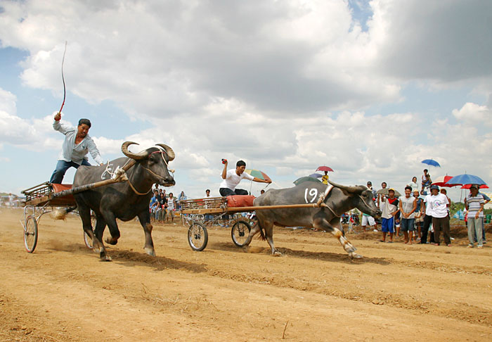 carabao (water buffalo) race, Pulilan, Bulacan, Philippines. This picture was taken around the time of the Carabao Festival honoring the patron San (Saint) Isidro.